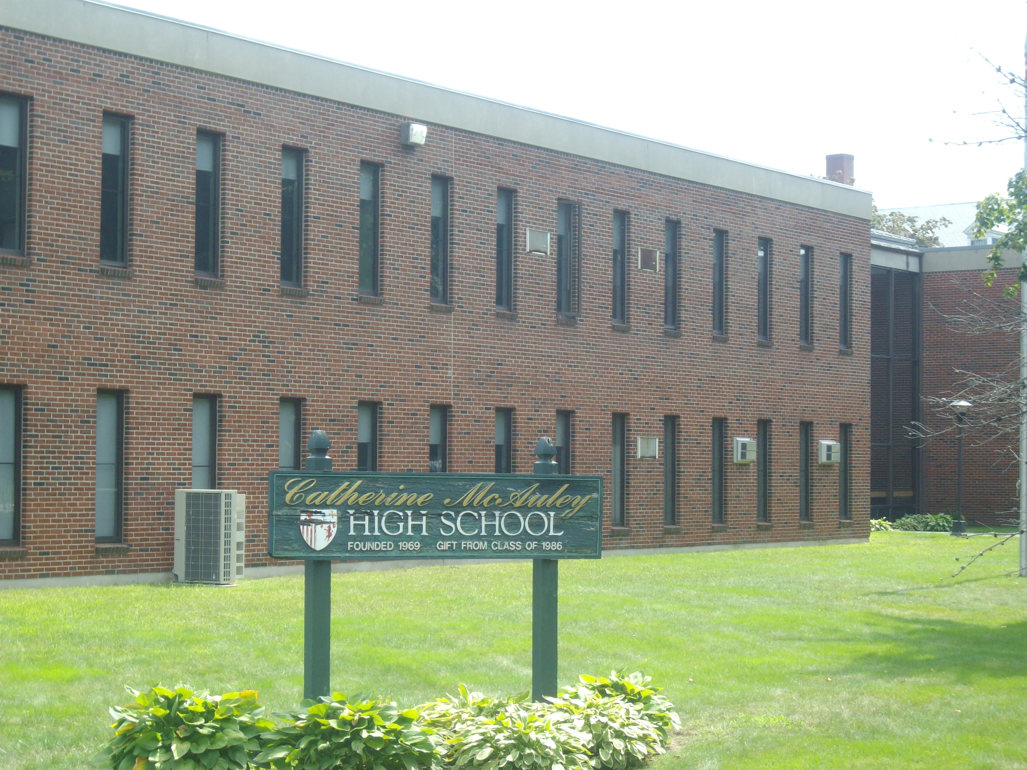 View of Catherine McAuley School in Portland, Maine in August 2008